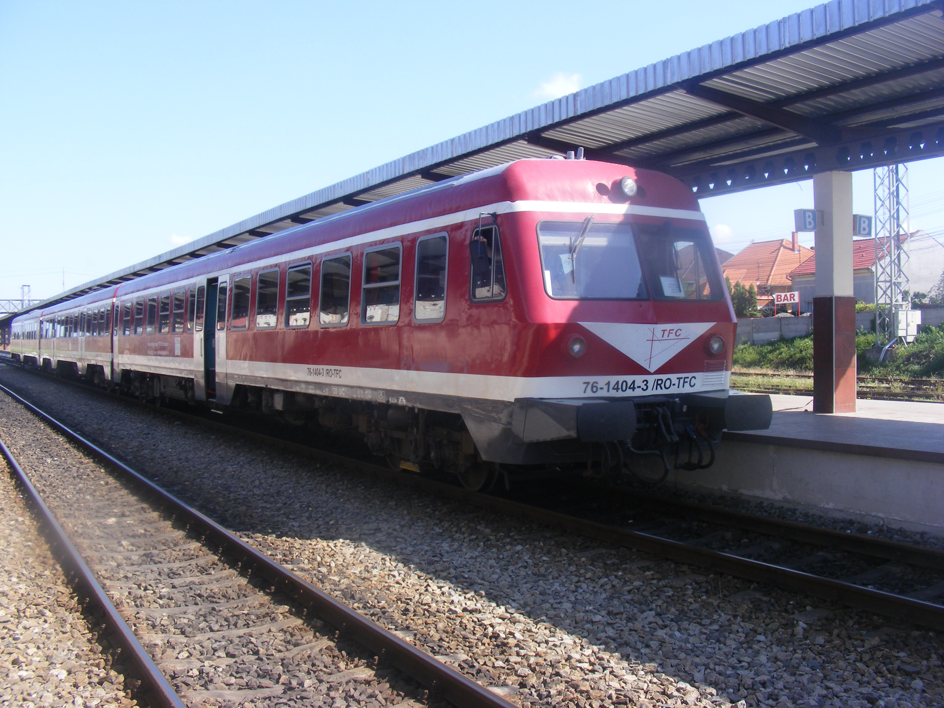 VT614 DMU of the Transferoviar Calatori (TFC) company on the platforms of Oradea railway station, seen after operating a train from the nearby Felix Spa/Baile Felix